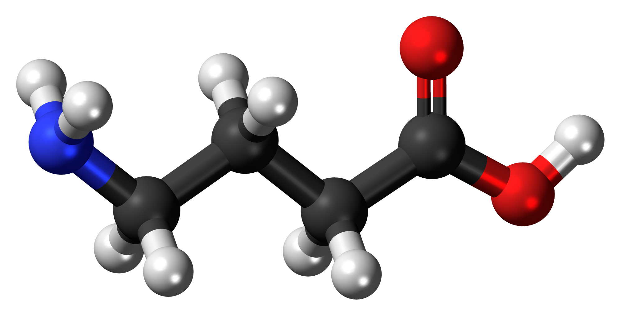 Ball-and-stick model of the GABA molecule, also known as gamma-aminobutyric acid, one of the most important neurotransmitters in the central nervous system. This image shows the electrically neutral form. Color code: Carbon, C: black Hydrogen, H: white Oxygen, O: red Nitrogen, N: blue